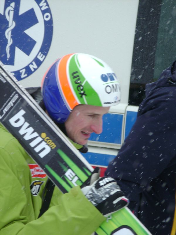 ski jumper Jakub Janda from the Czech Republic during the World Cup in Zakopane on 27-1-2008